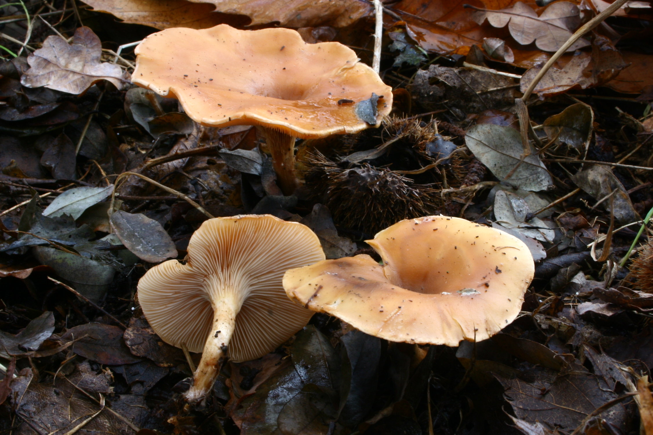 Lepista flaccida in a wood near Saulx-les-Chartreux, France.